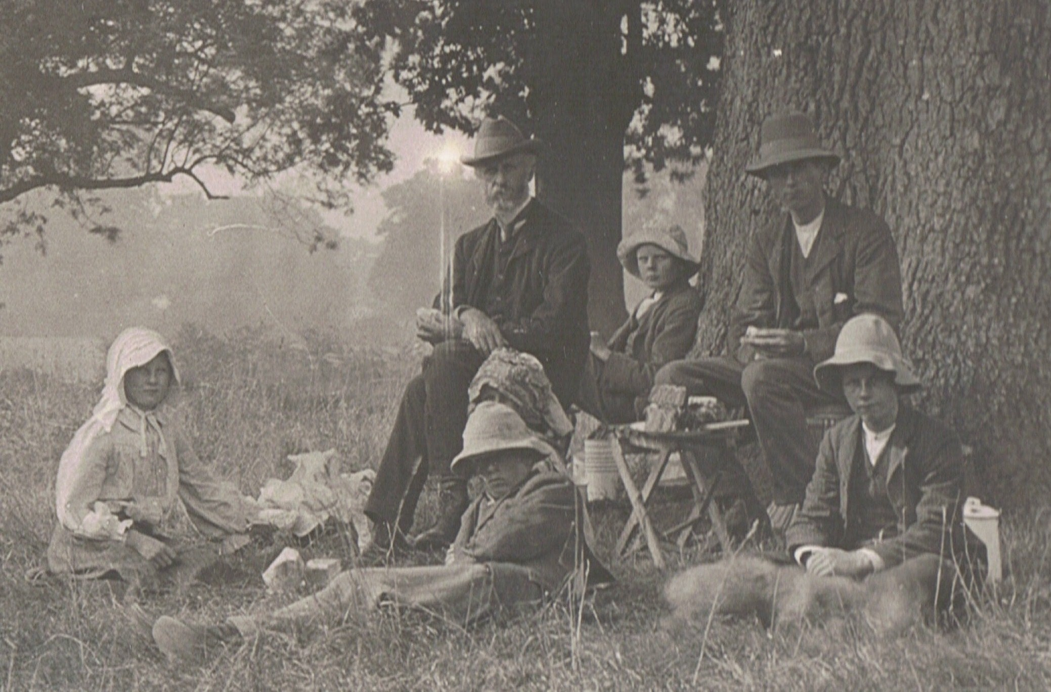 My scan of a photo (both taken by me, R. de Salis, Rodolph (talk)) of Cecil F. de Salis and some of his children, camping holiday, Ayots Green, 4 September 1911.